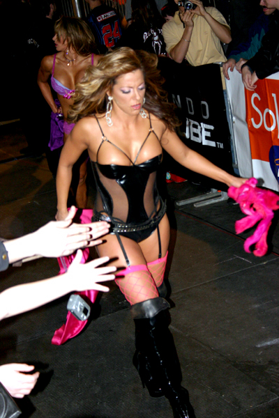 dawn marie and jackie making their way back to the locker room